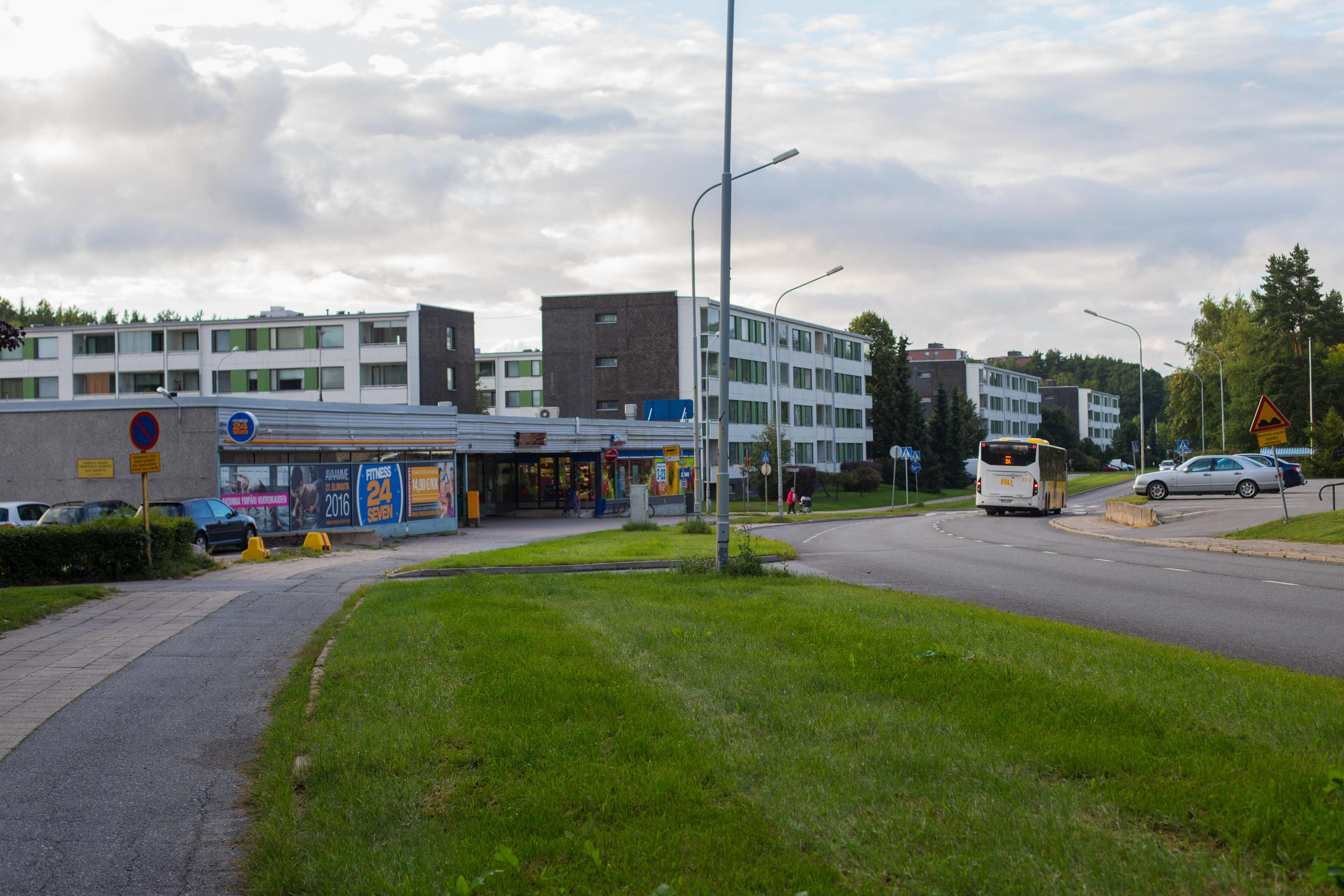 Hepokulta shopping mall, Varkkavuorenkatu